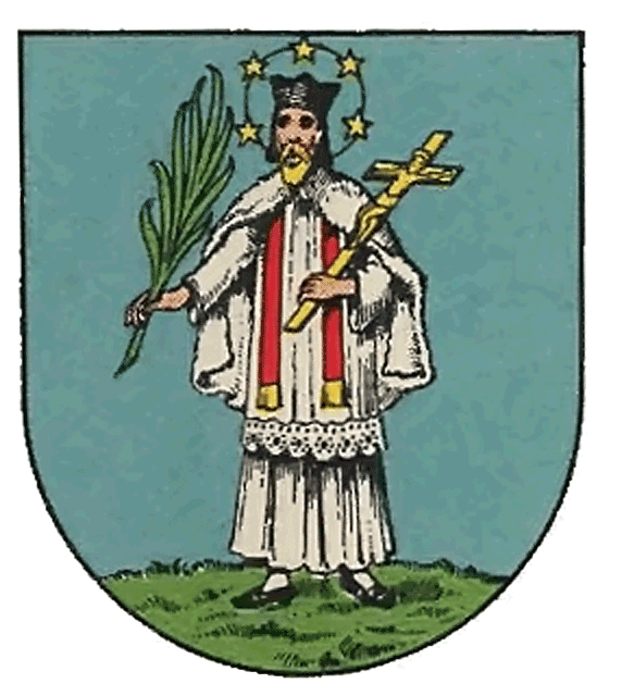 Coat of arms of Gersthof, Vienna